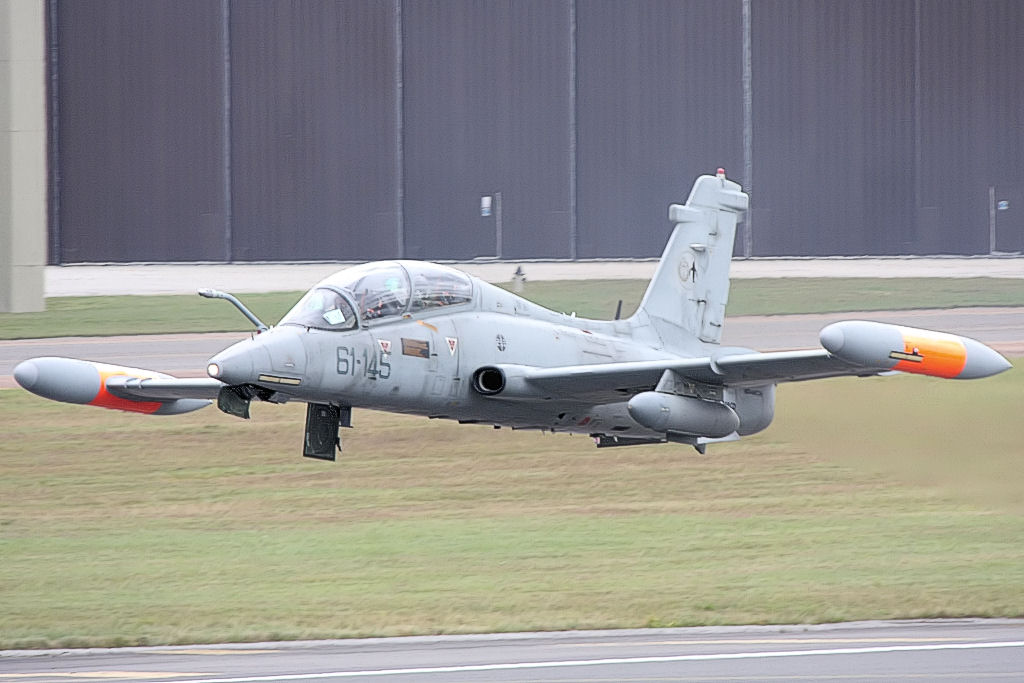 MB339 - RIAT 2008